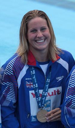 British swimmer Joanne Jackson, bronze medallist on the 4x200 metre relay at the 2009 World Championships depicted person: Joanne Jackson (age: 22.88)